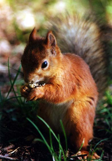 This image was copied from fr. The original description was: Écureuil roux.